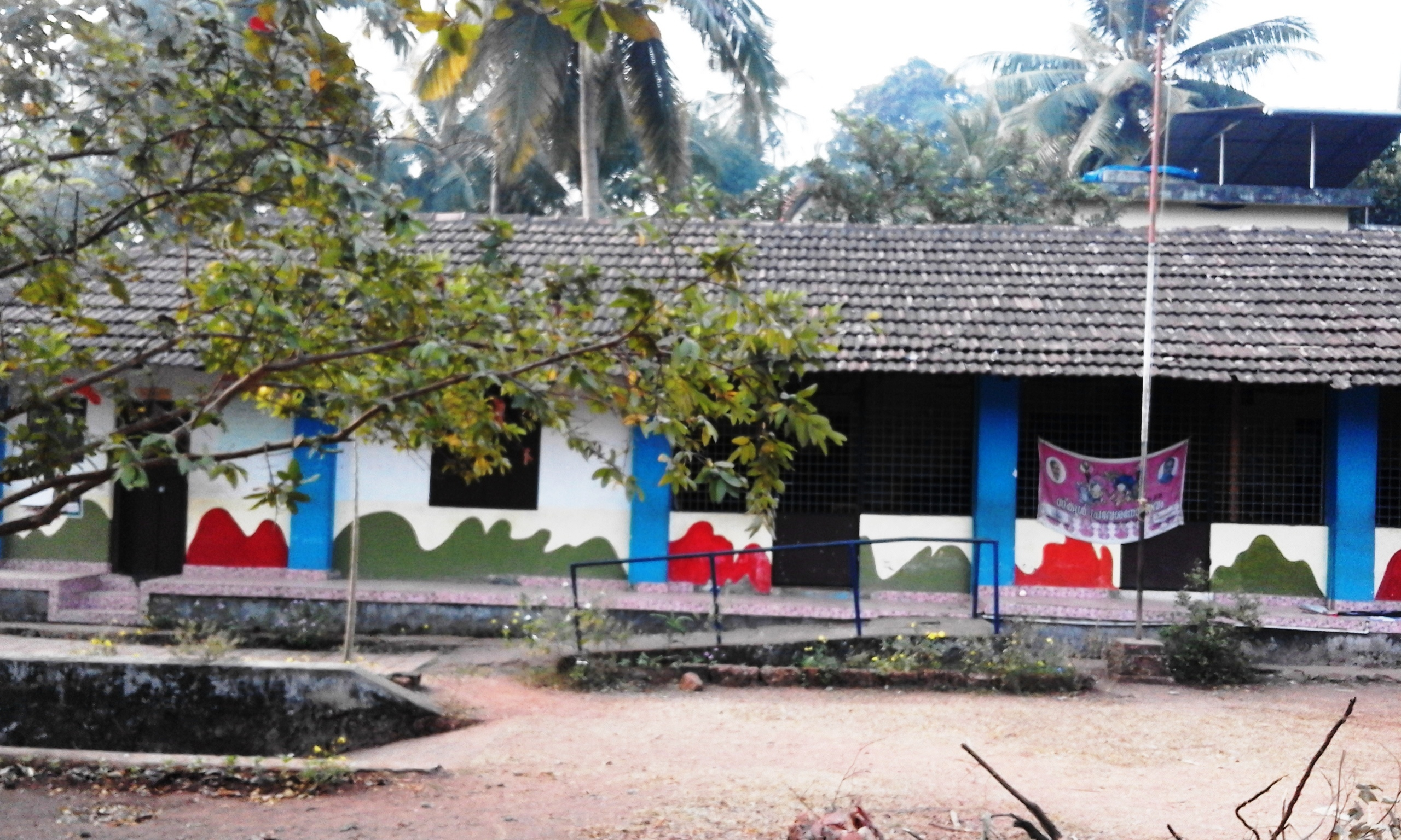 Kozhikode District, Kerala province, India.